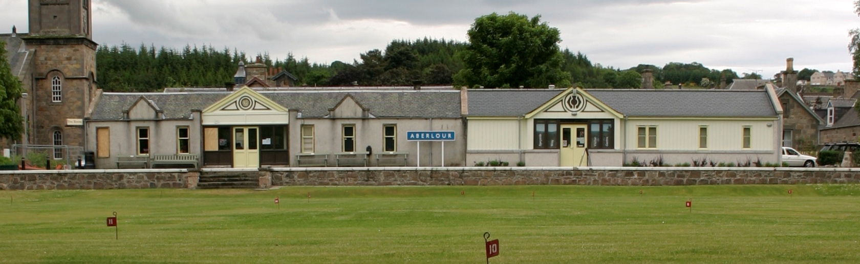 Closer view of Aberlour station